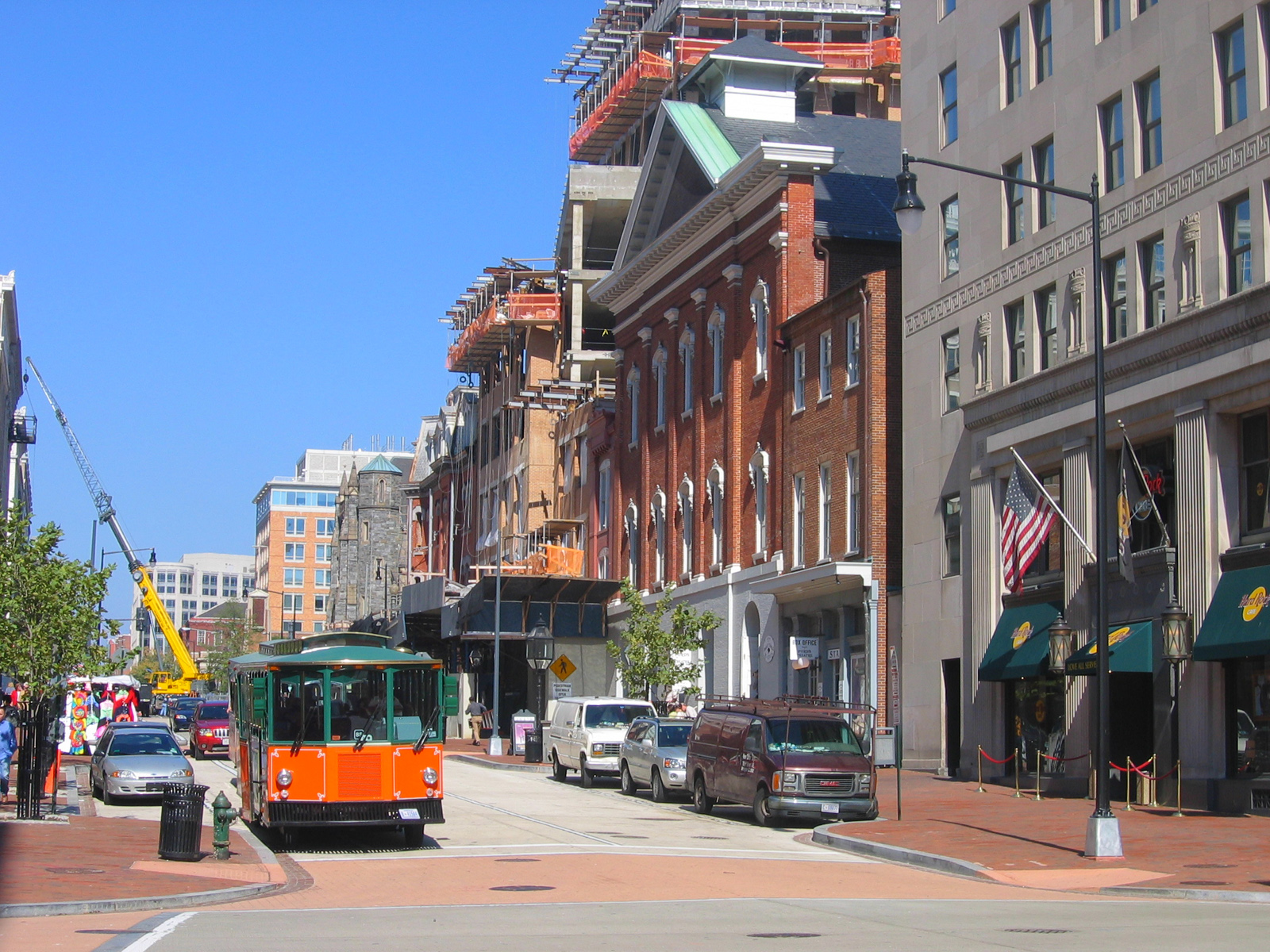 Ford's Theatre located on 10th Street NW in Washington, D.C. — an historic landmark and popular tourist attraction, in a neighborhood that is undergoing gentrification with many new condos and office buildings.